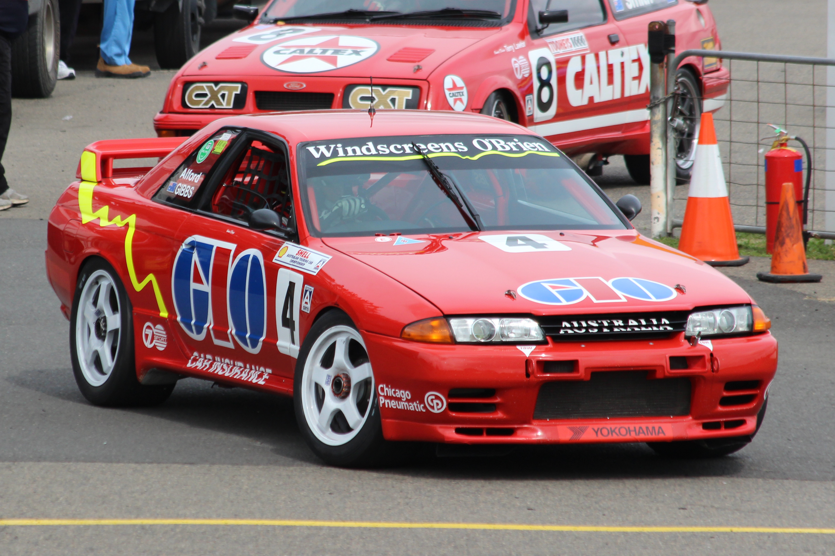 The Nissan Skyline BNR32 GT-R which was raced by Mark Gibbs and Rohan Onslow in the 1991 Bathurst 1000, pictured at the 2015 Muscle Car Masters.